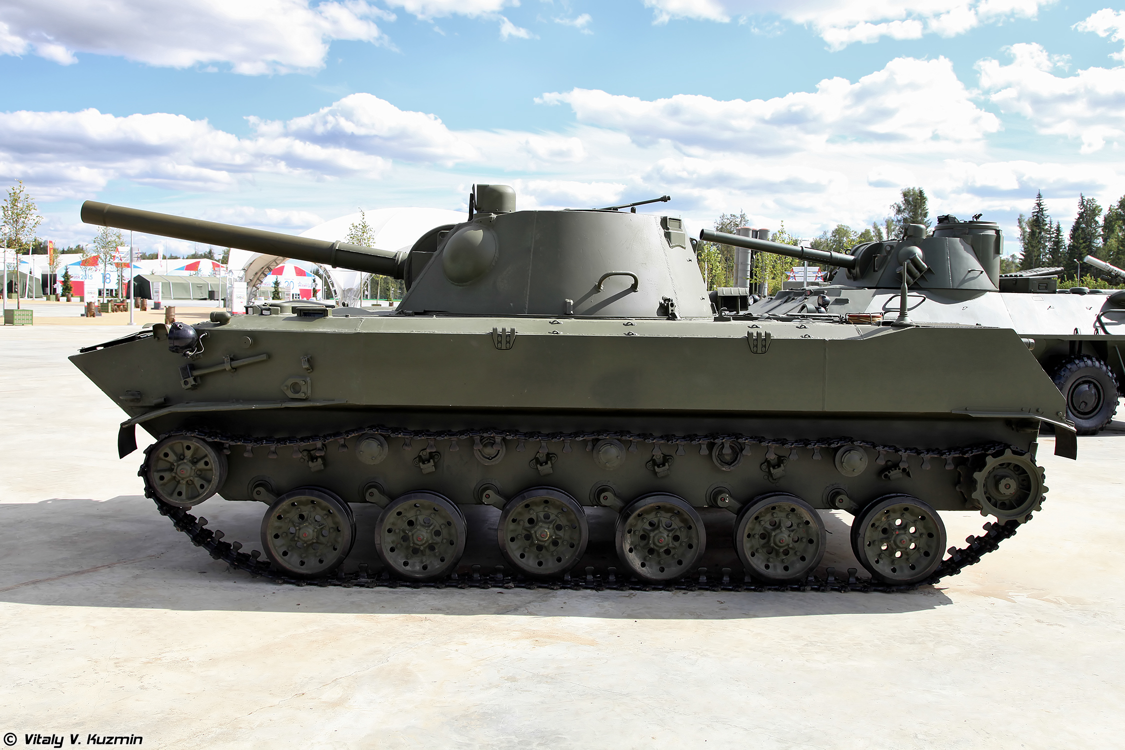 120mm self-propelled gun 2S9 Nona-S